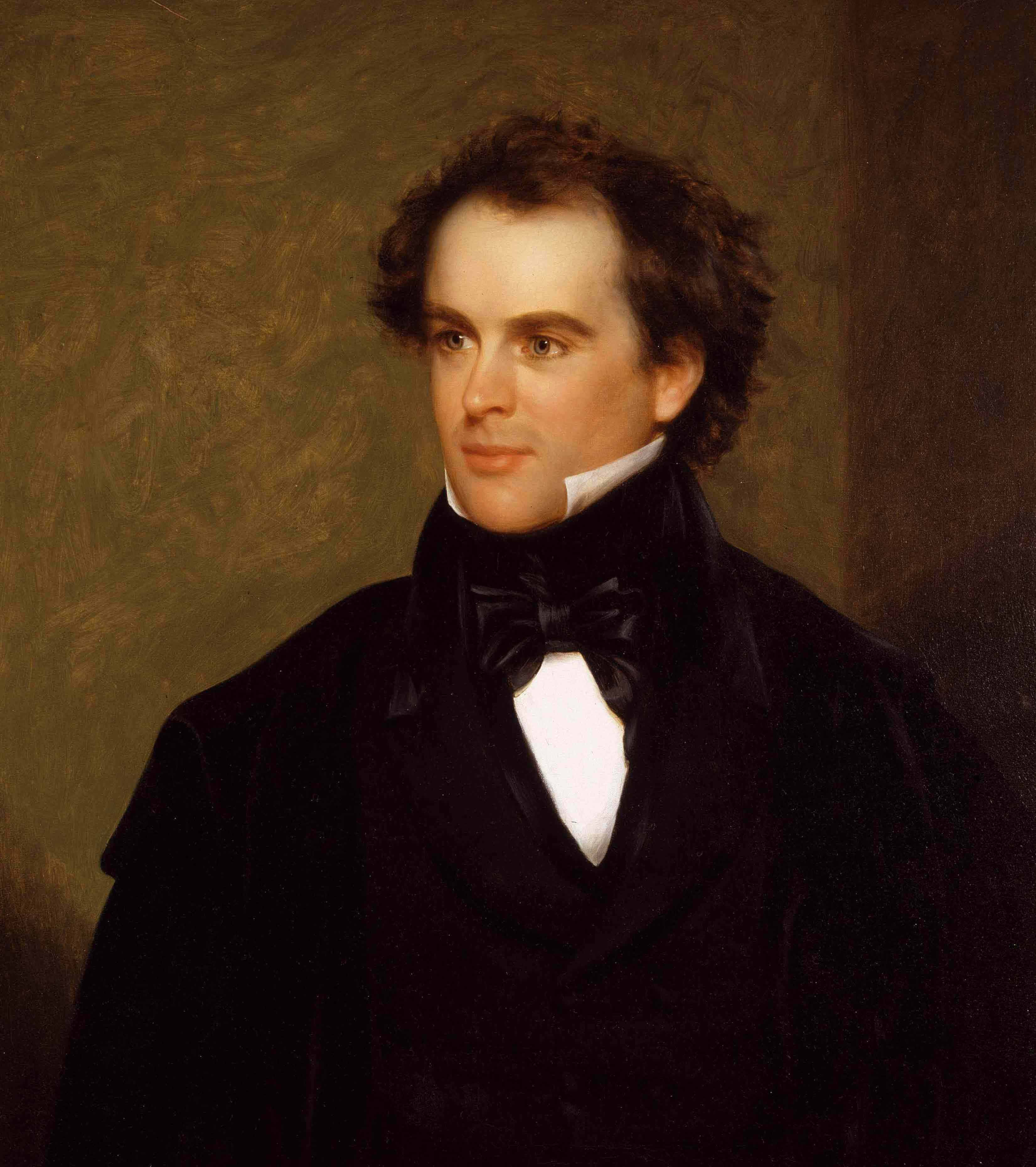 Portrait of American novelist Nathaniel Hawthorne (1804–1864)